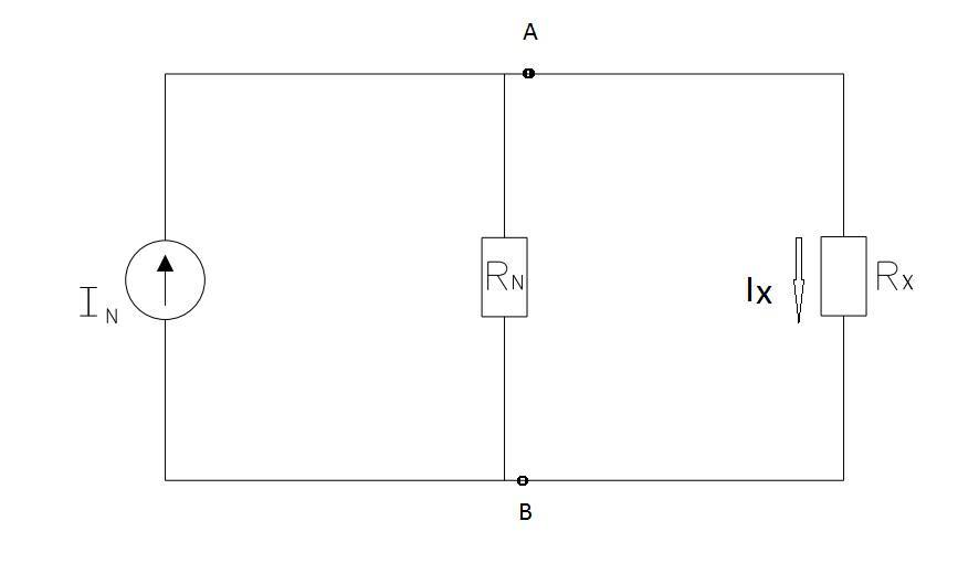 Metoda e Nortonit